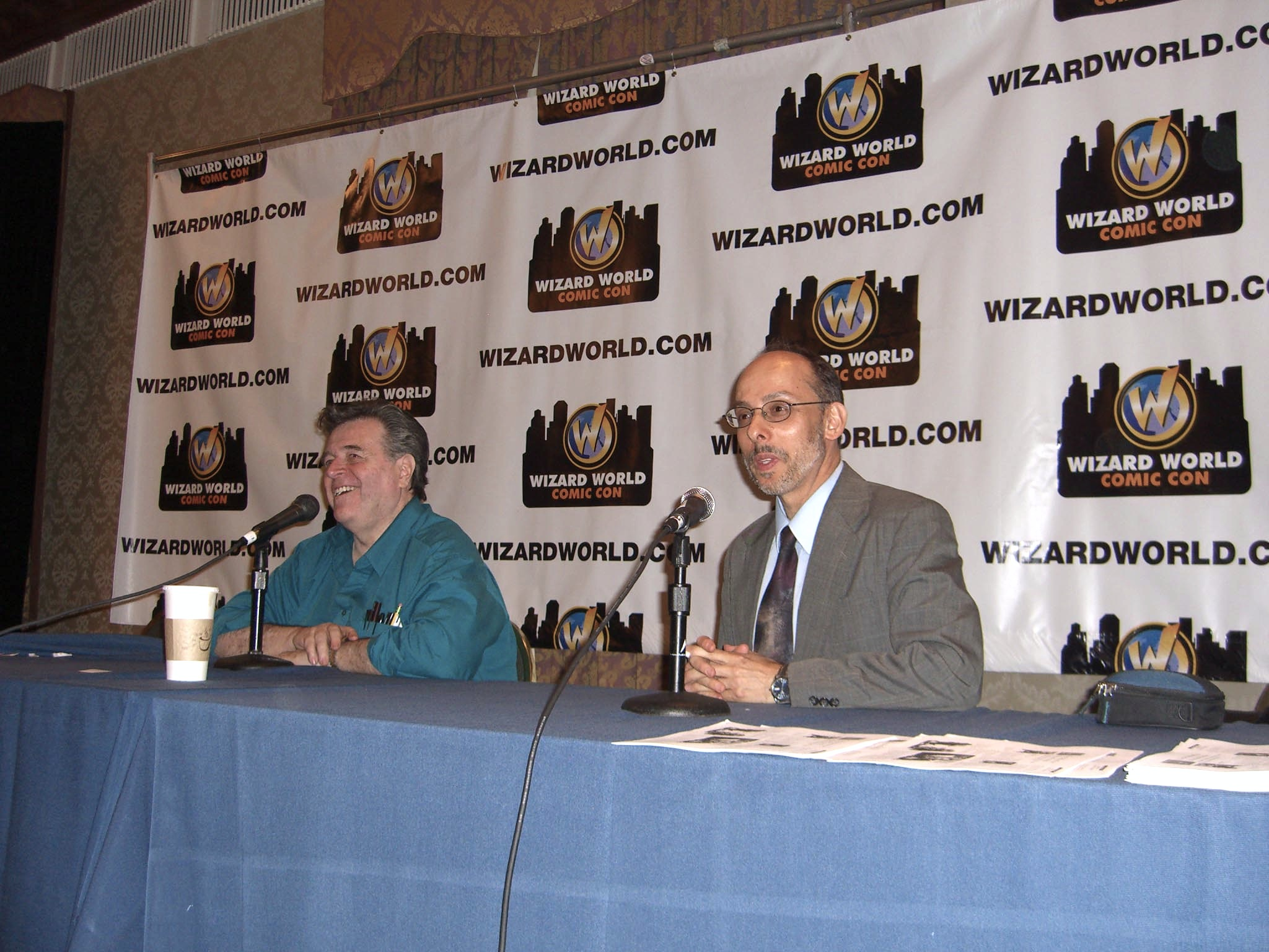 Comics creator Neal Adams (left) and writer and professor Rafael Medoff on a panel promoting They Spoke Out: American Voices Against the Holocaust, an online educational motion comics series, at the Big Apple Convention in Manhattan, May 22, 2011. Photographed by Luigi Novi. This photo is not in the public domain. It may, however, be used, modified and published for any purpose, free of charge, only if the photographer is properly credited, either by linking the photograph to this page, or with an easily visible credit to the photographer placed near the photo in each instance in which it is used. (See licensing information below.) Publication of this photo without this proper attribution constitutes copyright infringement. If you have any questions, you can contact me on my Wikipedia Talk Page.